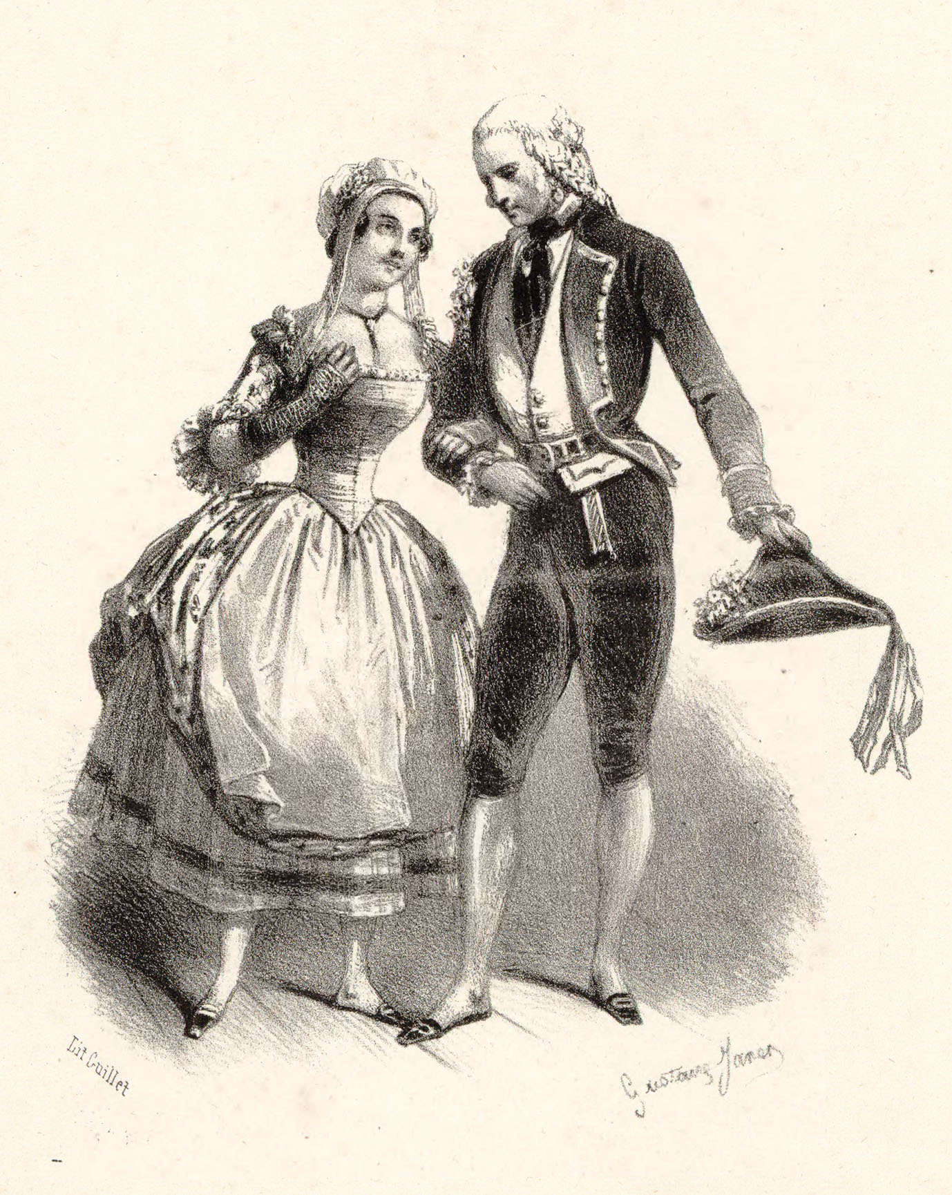 Geneviève-Aimé-Zoë Prévost and Jean-Baptiste Chollet as Madeleine and Chapelou in Adolphe Adams's 3-act opéra-comique Le postillon de Lonjumeau